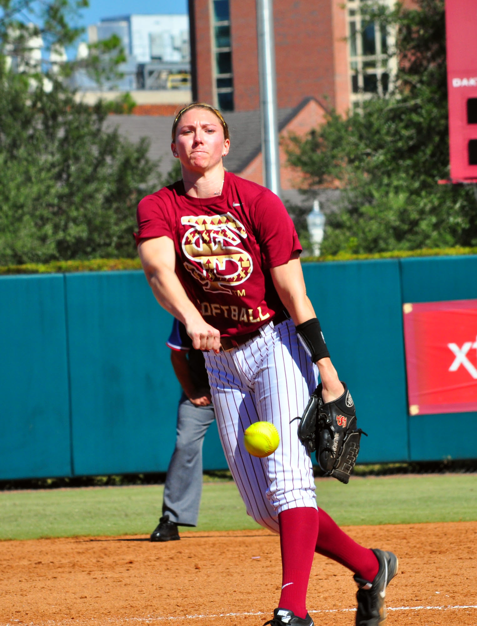 Lacey Waldrop pitching for the Florida State Seminoles against Georgia at JoAnne Graf Field.